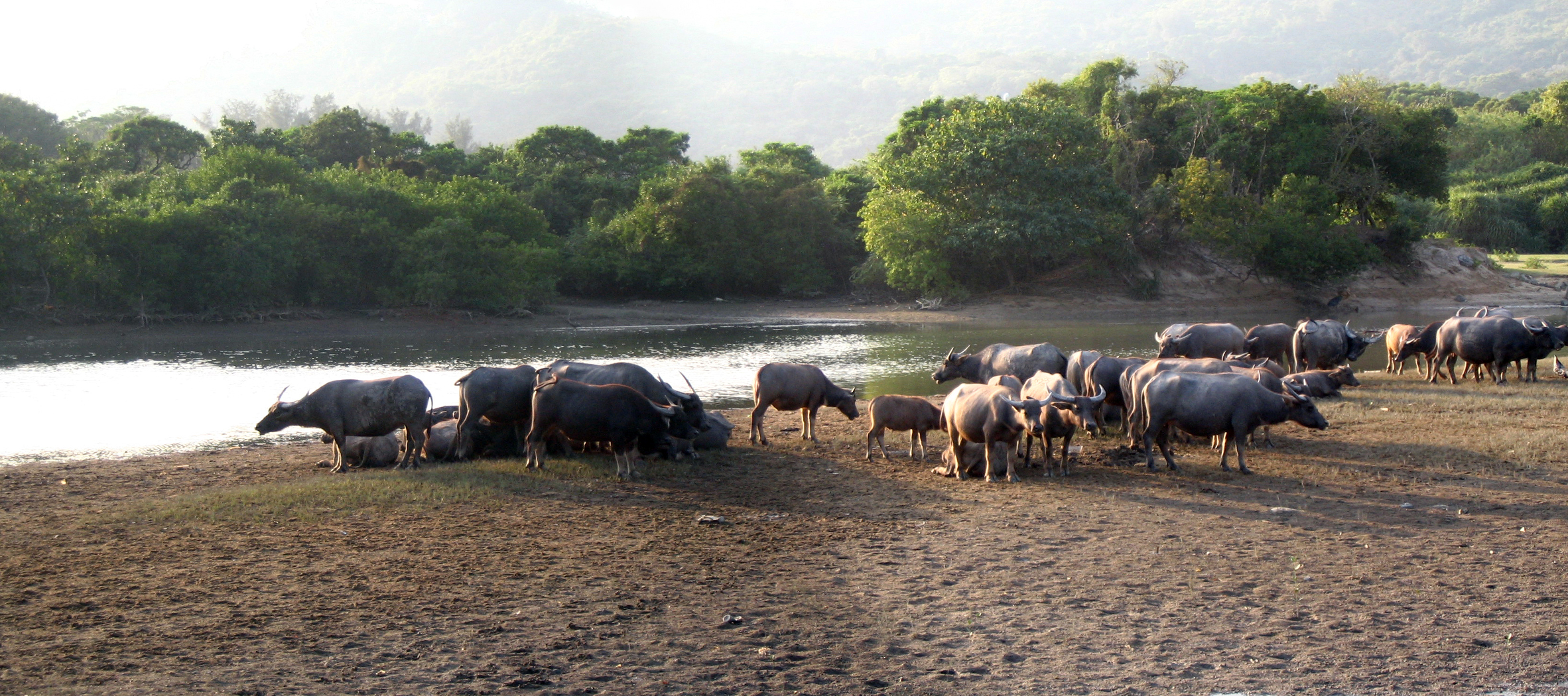 Panoramic photo of water buffaloes at Pui O, combined from 2040329458 and 2039533565